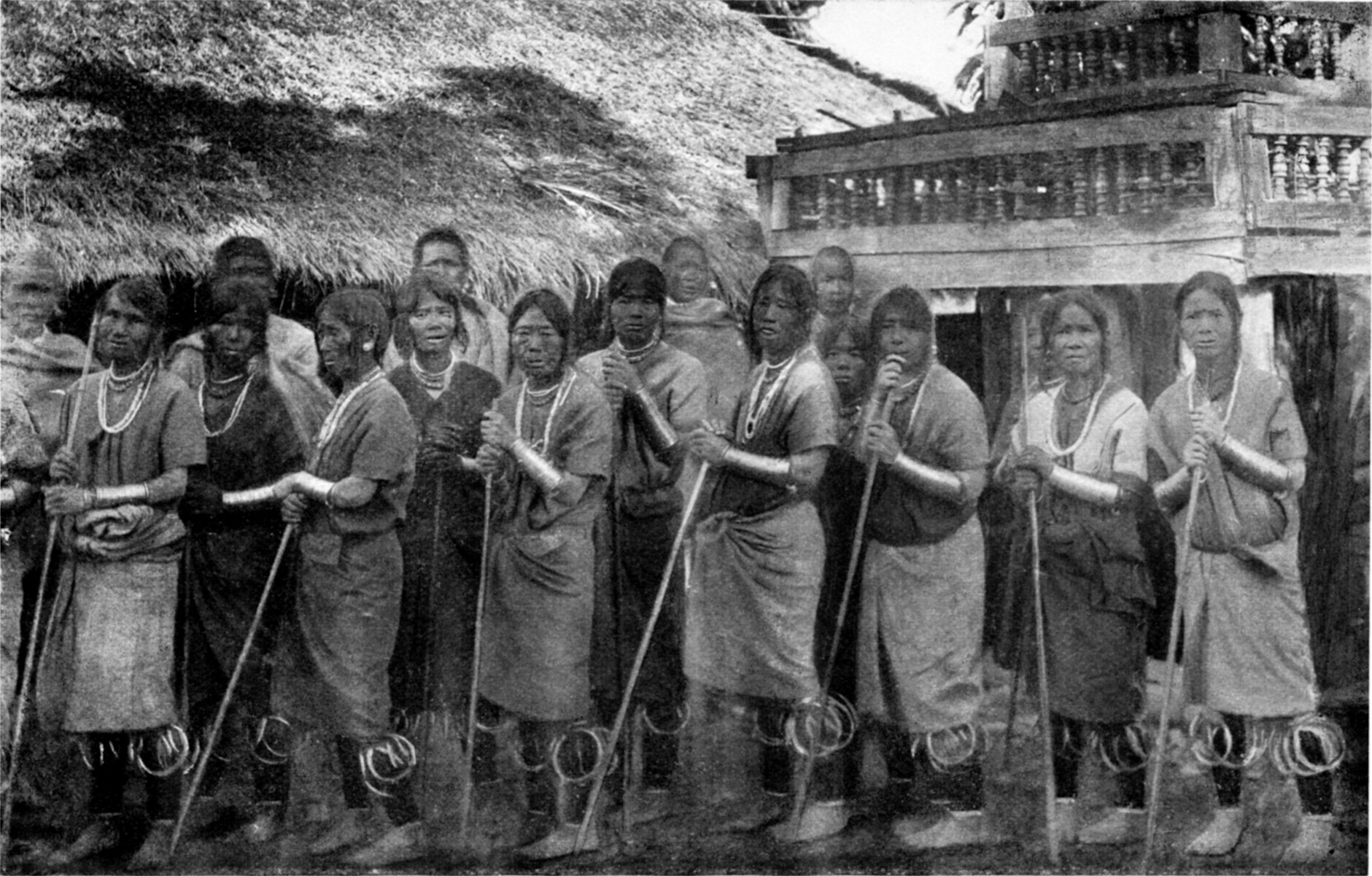 Loi Ling Karen womenWearing Brass-rod Armlets and Leg-rings.